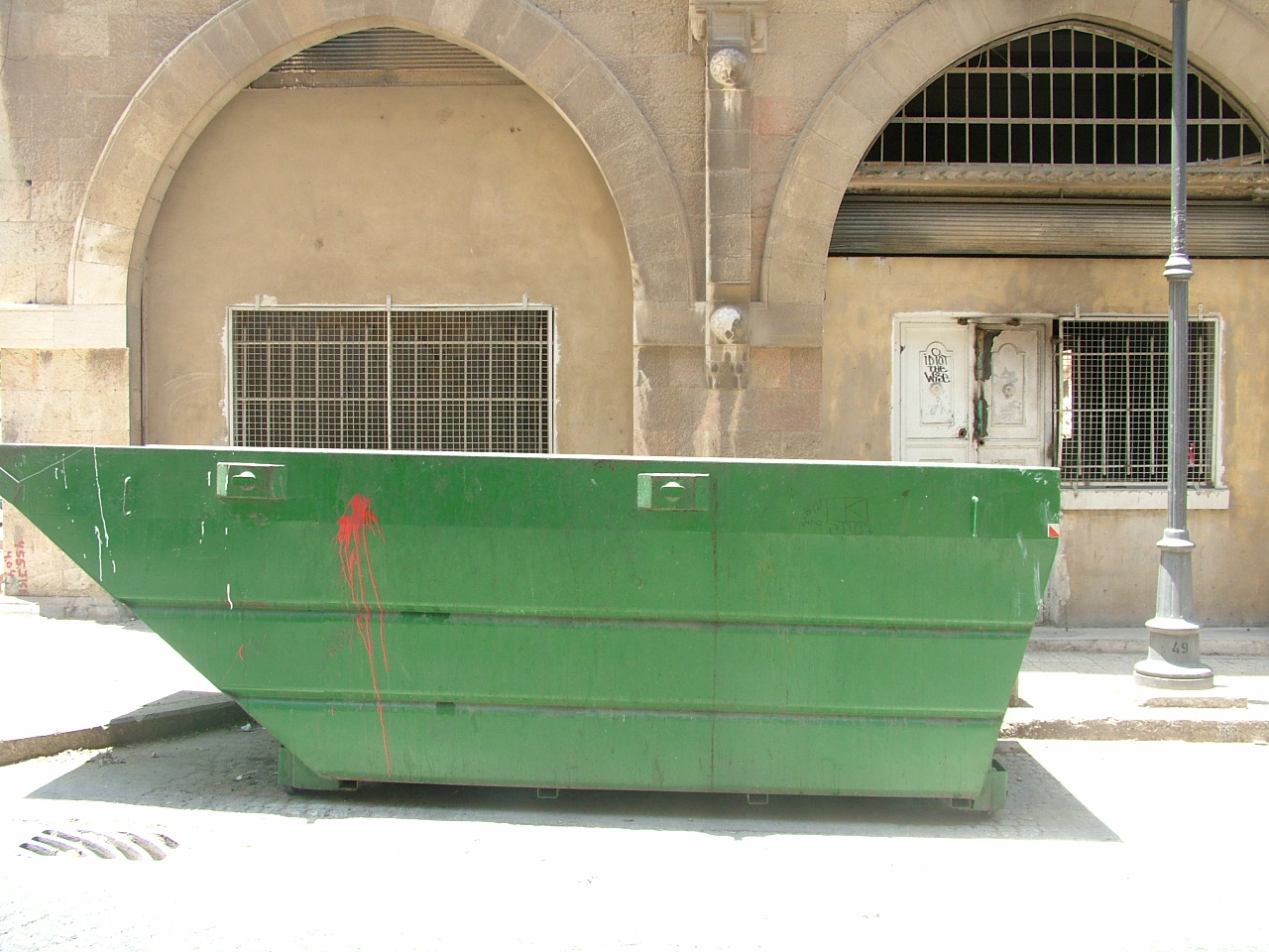 Trash container in Jerusalem